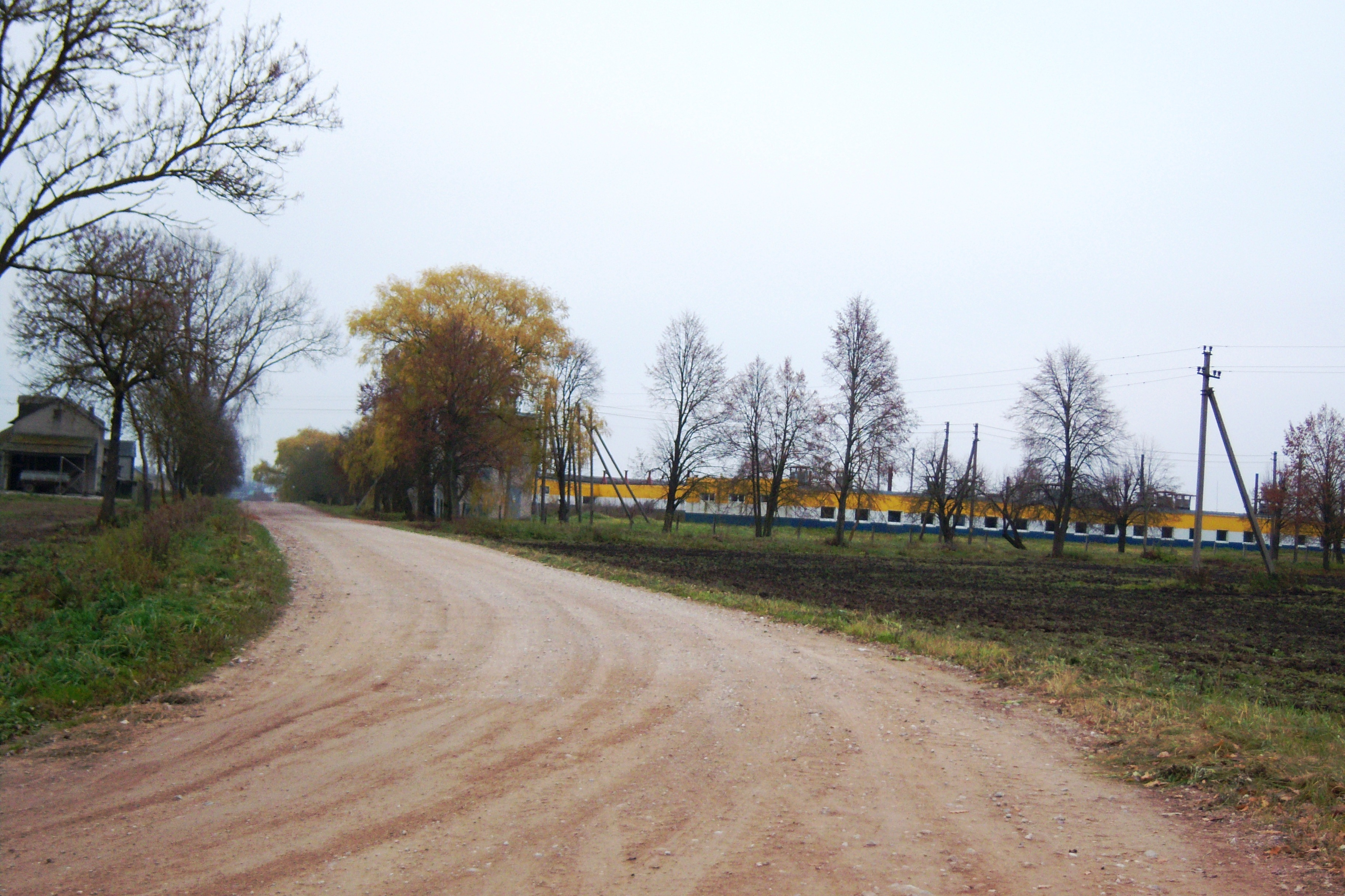 Jugintai, Kaunas district, Lithuania